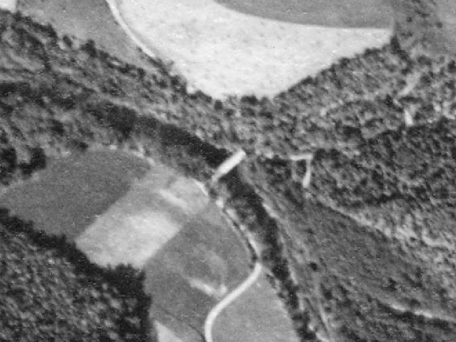 Aerial photo of Riegel Covered Bridge No. 6 over Roaring Creek in Franklin Township in Columbia County, Pennsylvania, USA in October, 1938. The bridge was destroyed in an arson fire in May 1979.